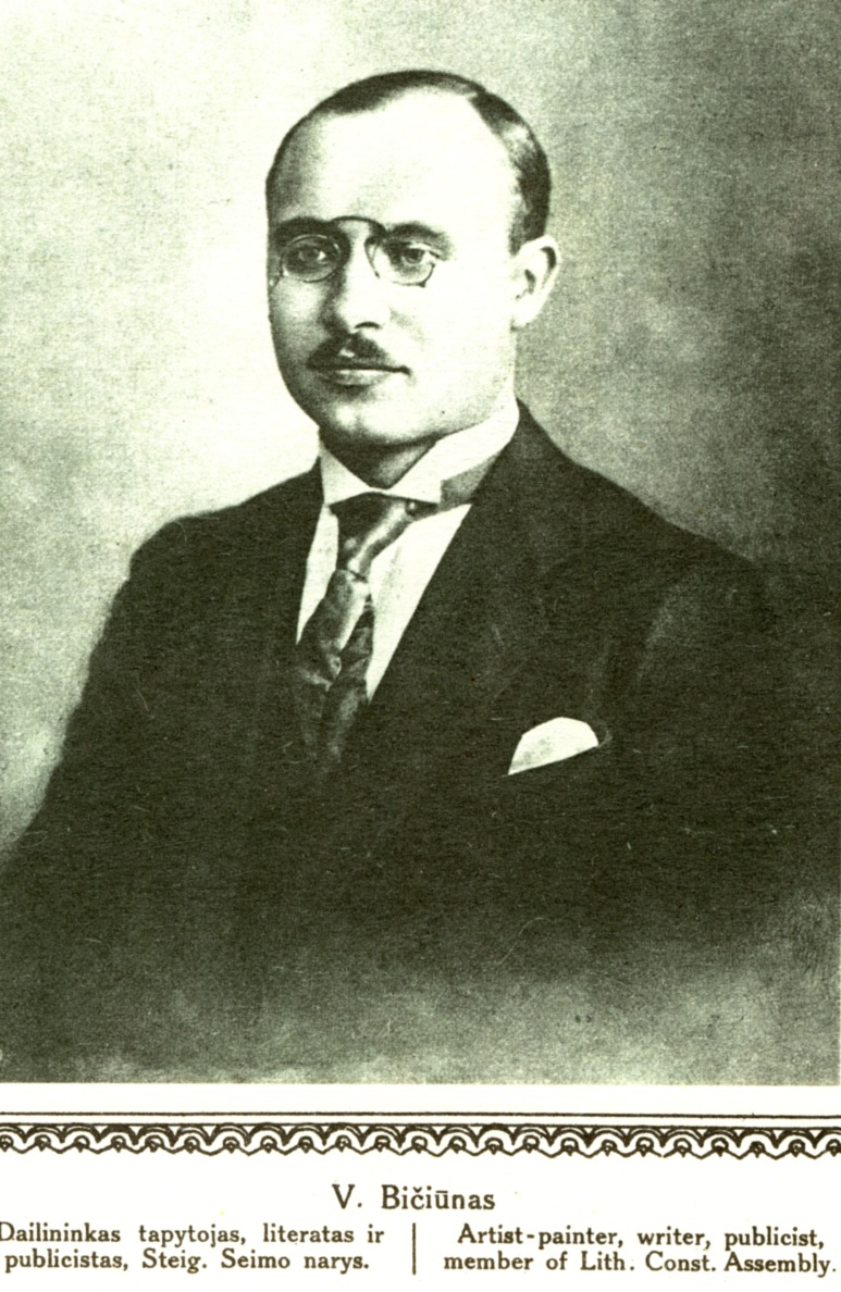 Vytautas Pranas Bičiūnas, painter, writer, member of Constituent Assembly of Lithuania and Lithuanian SeimasLietuvių: Vytautas Pranas Bičiūnas, Lietuvos dailininkas, teatro veikėjas, rašytojas, dailės ir literatūros kritikas, Steigiamojo Seimo atstovas